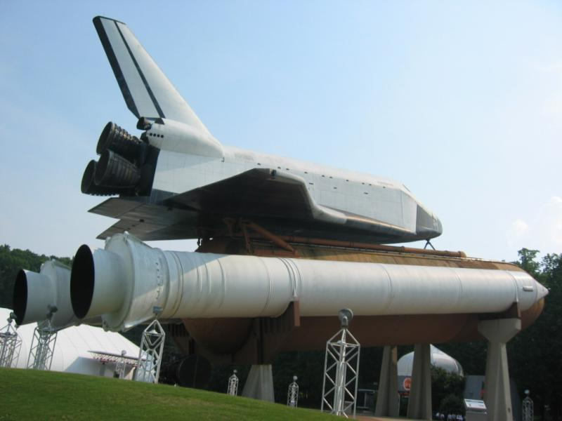 The shuttle mock-up Pathfinder at the US Space and Rocket Center, Huntsville, AL.